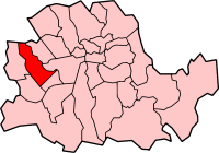 Map of the Metropolitan borough of Kensington, former County of London.